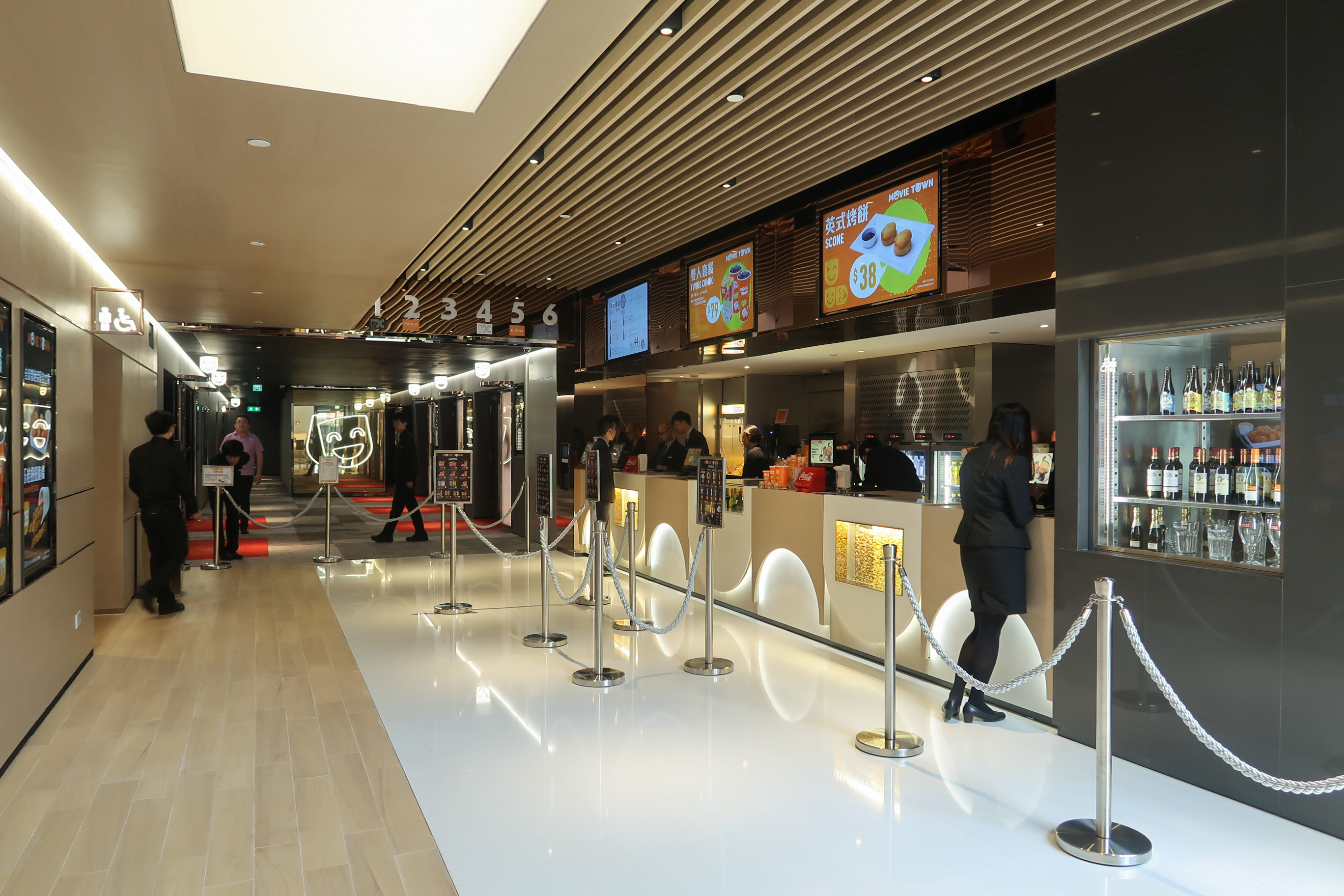 Movie Town Lobby